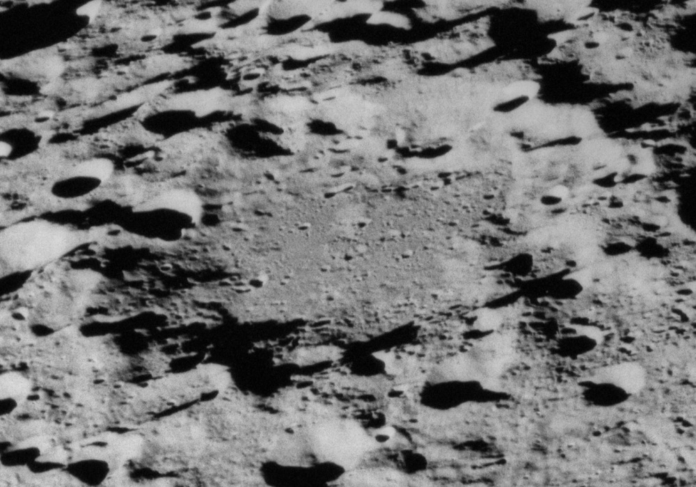 Oblique view of H. G. Wells crater, on the far side of the moon